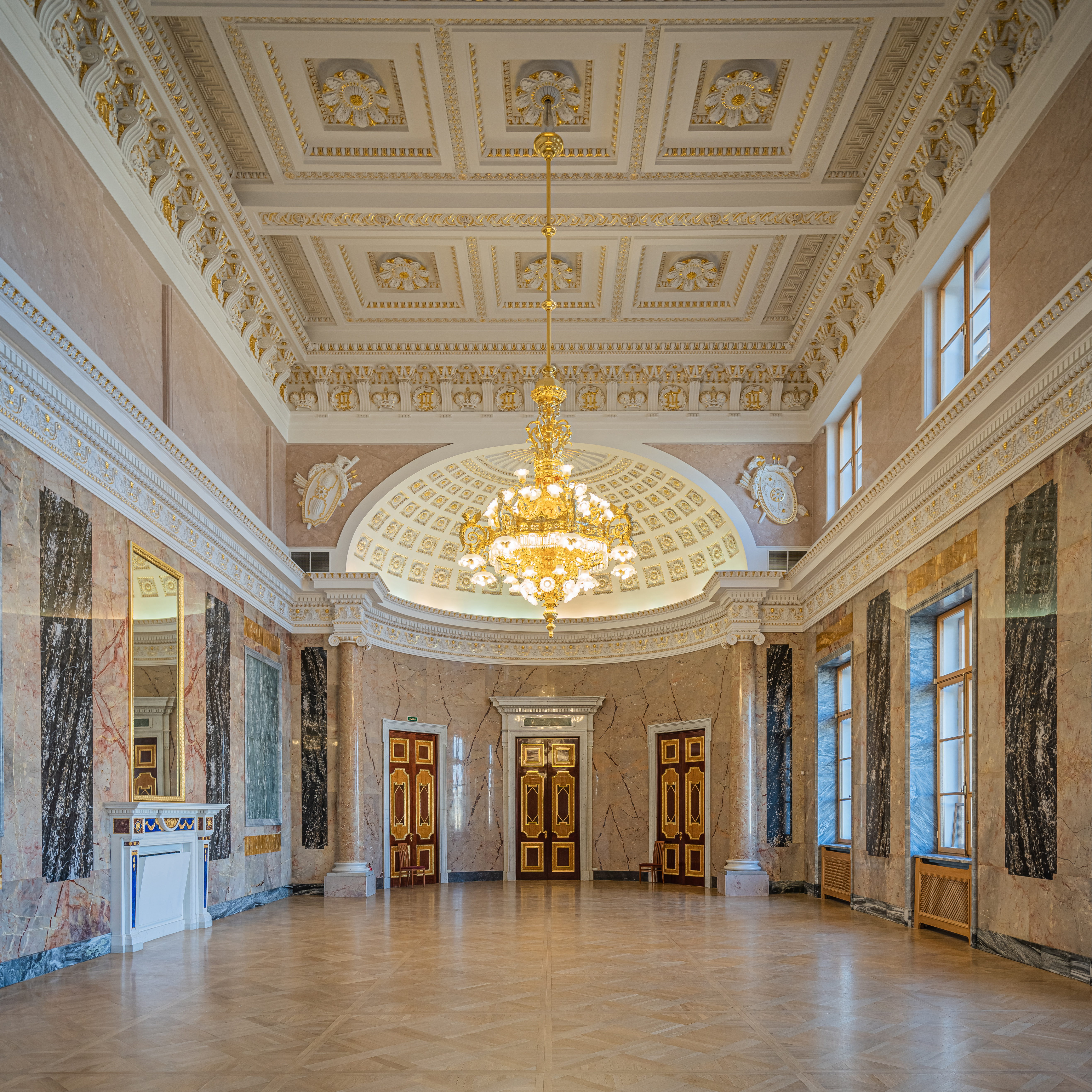 Interiors of St. Michael Castle in Saint Petersburg, Russia